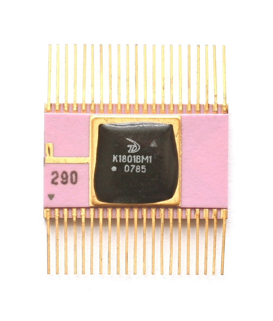 USSR CPU K1801VM1 Ceramic